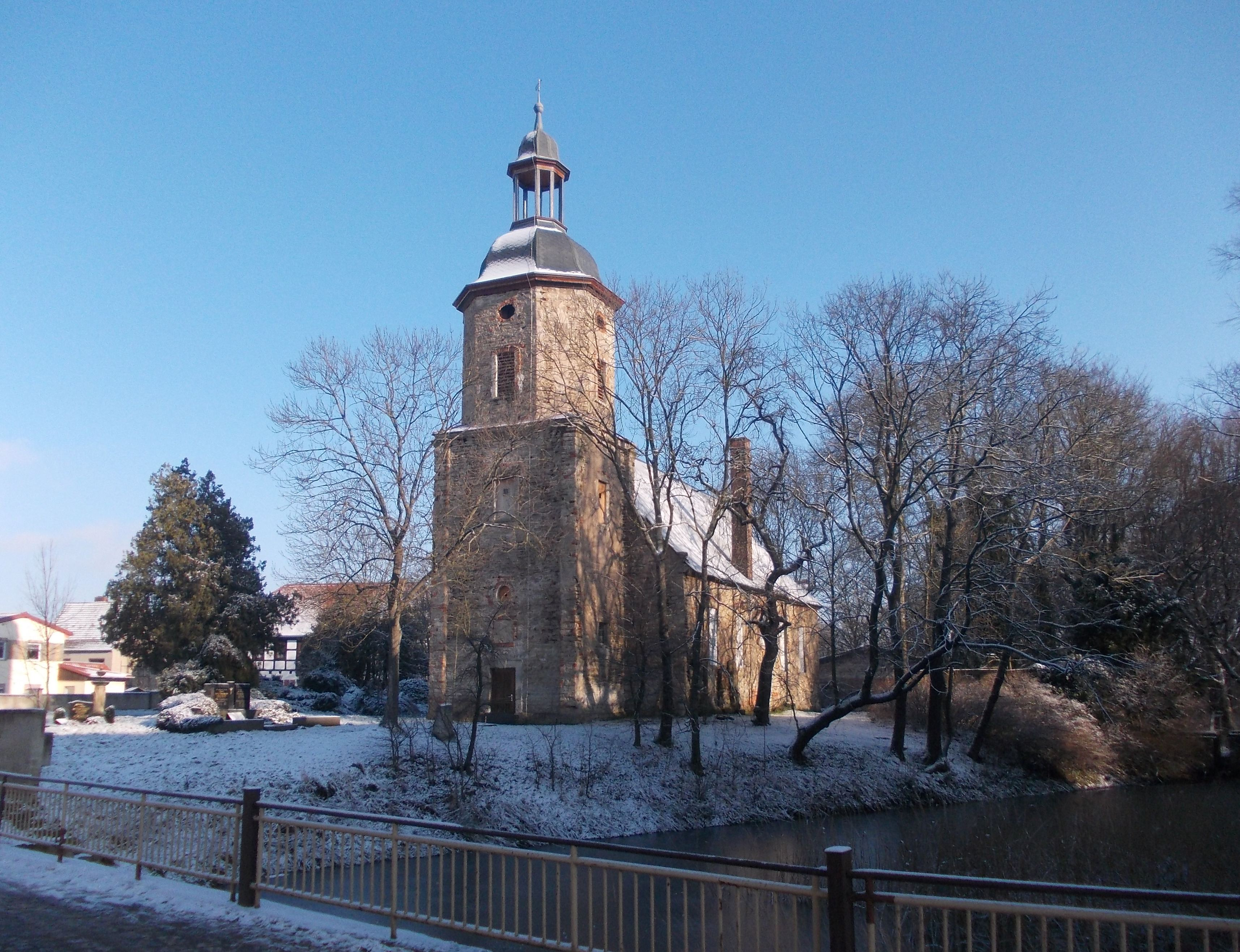 Zangenberg church (Zeitz, district: Burgenlandkreis, Saxony-Anhalt)